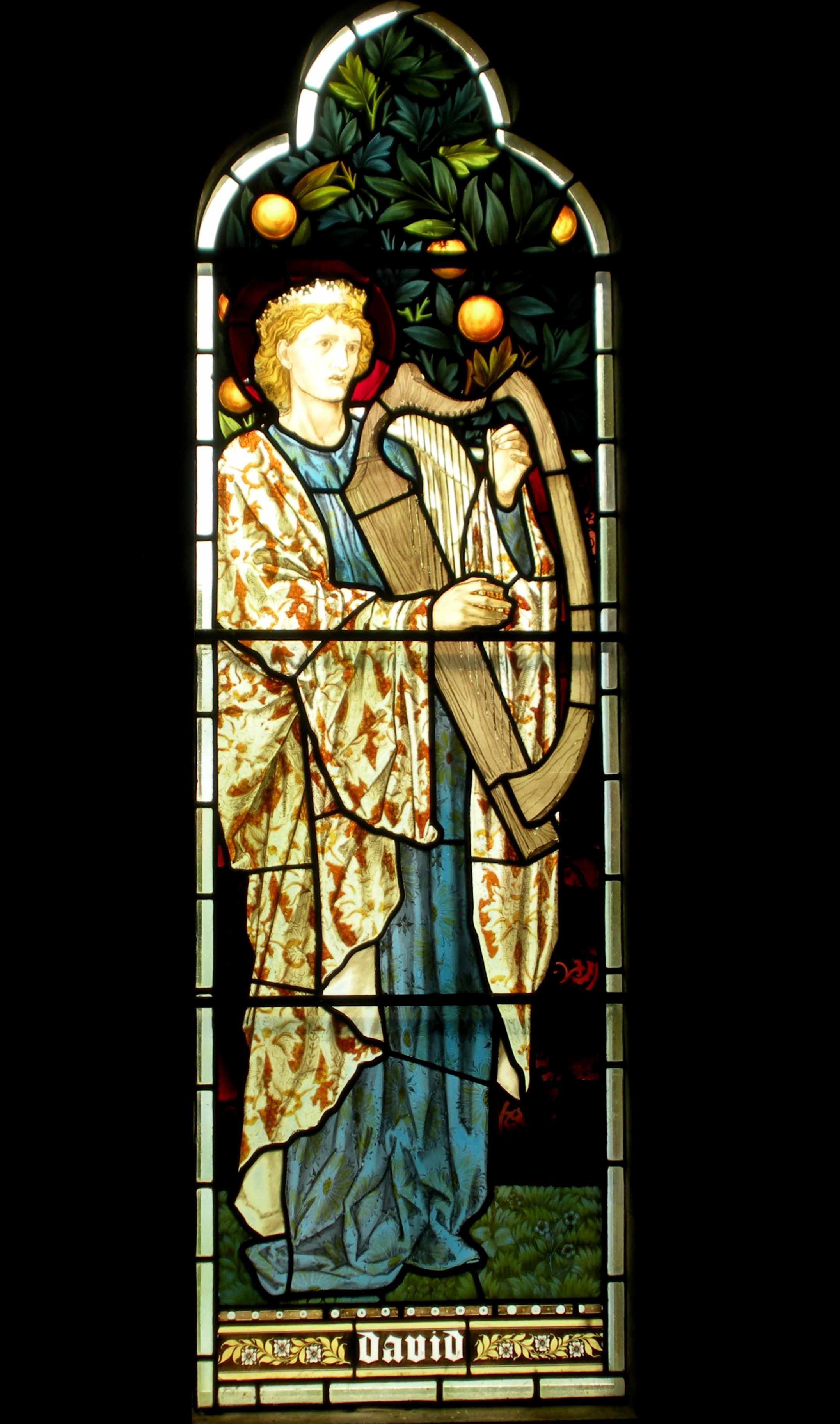 "David". 1872, stained-glass window by Edward Burne-Jones at Waterford, Hertfordshire.